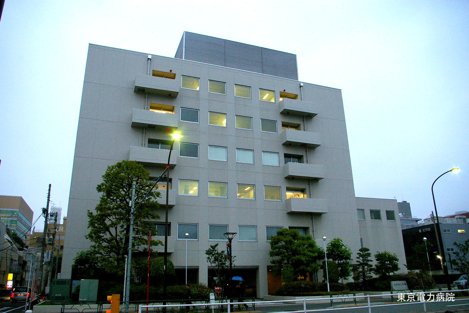 2009.5日本国内で塾生 (talk)が撮影。